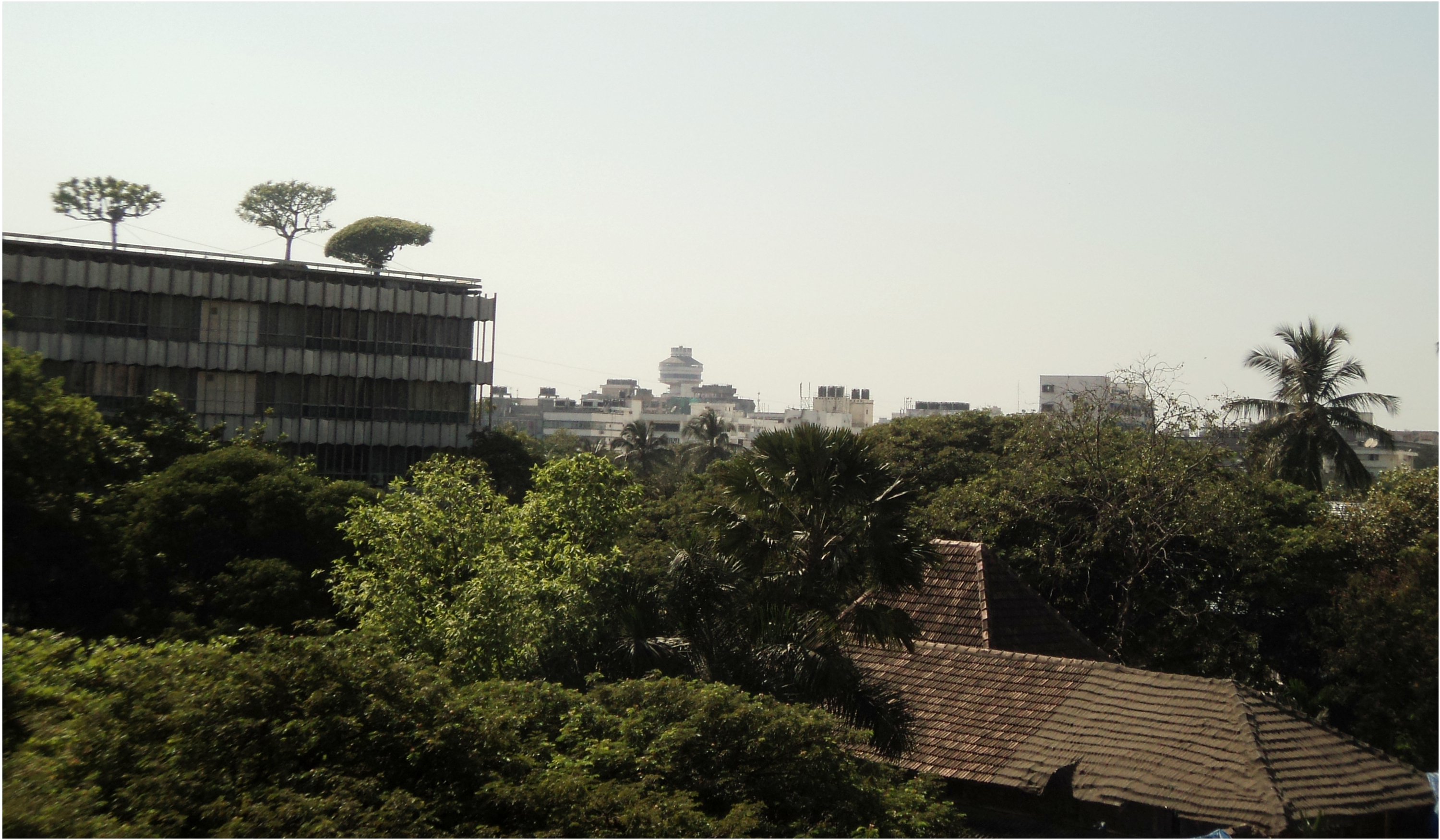 the trees in the top of the building, mumbai